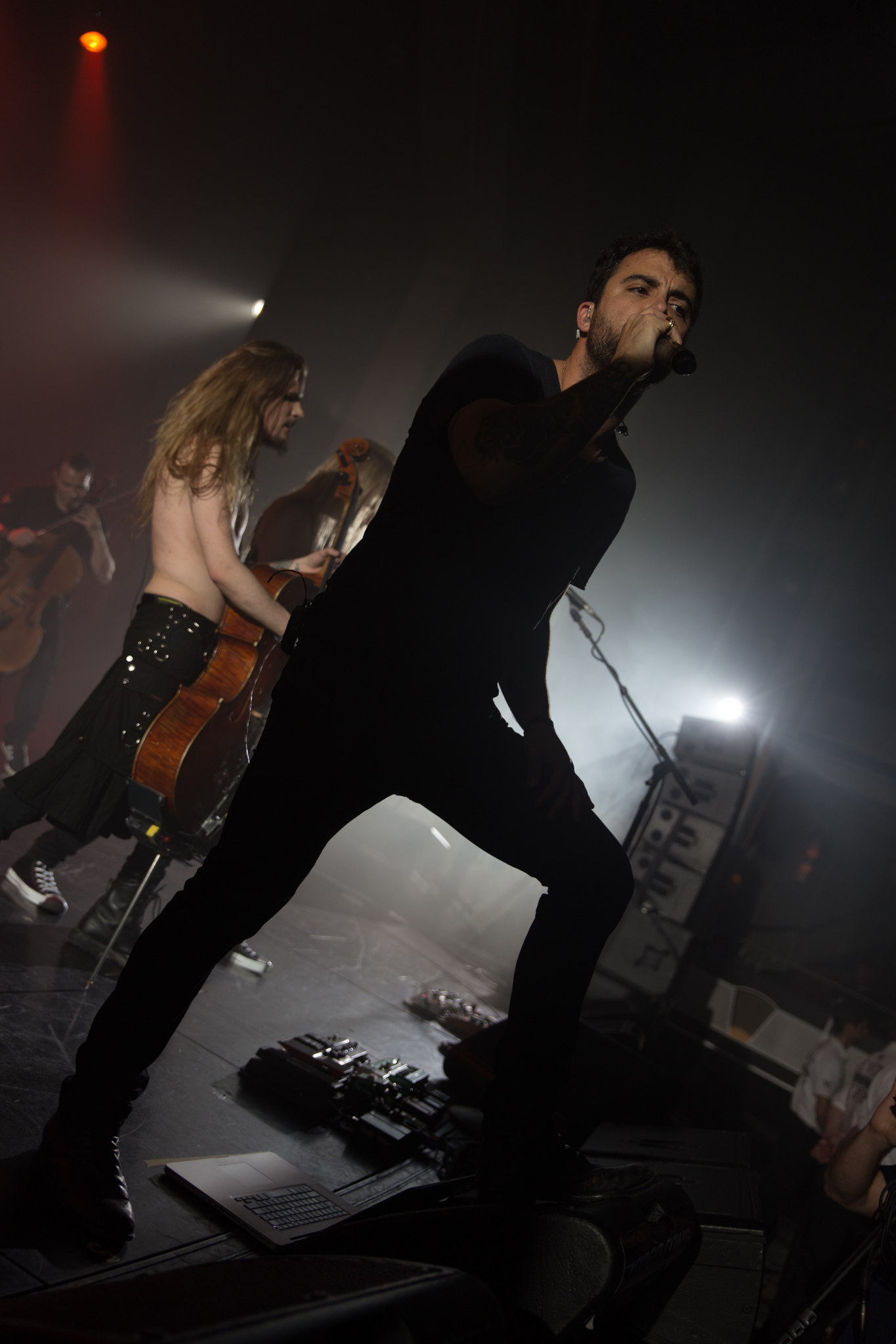 Apocalyptica performing at 70.000 tons of metal, january 2015